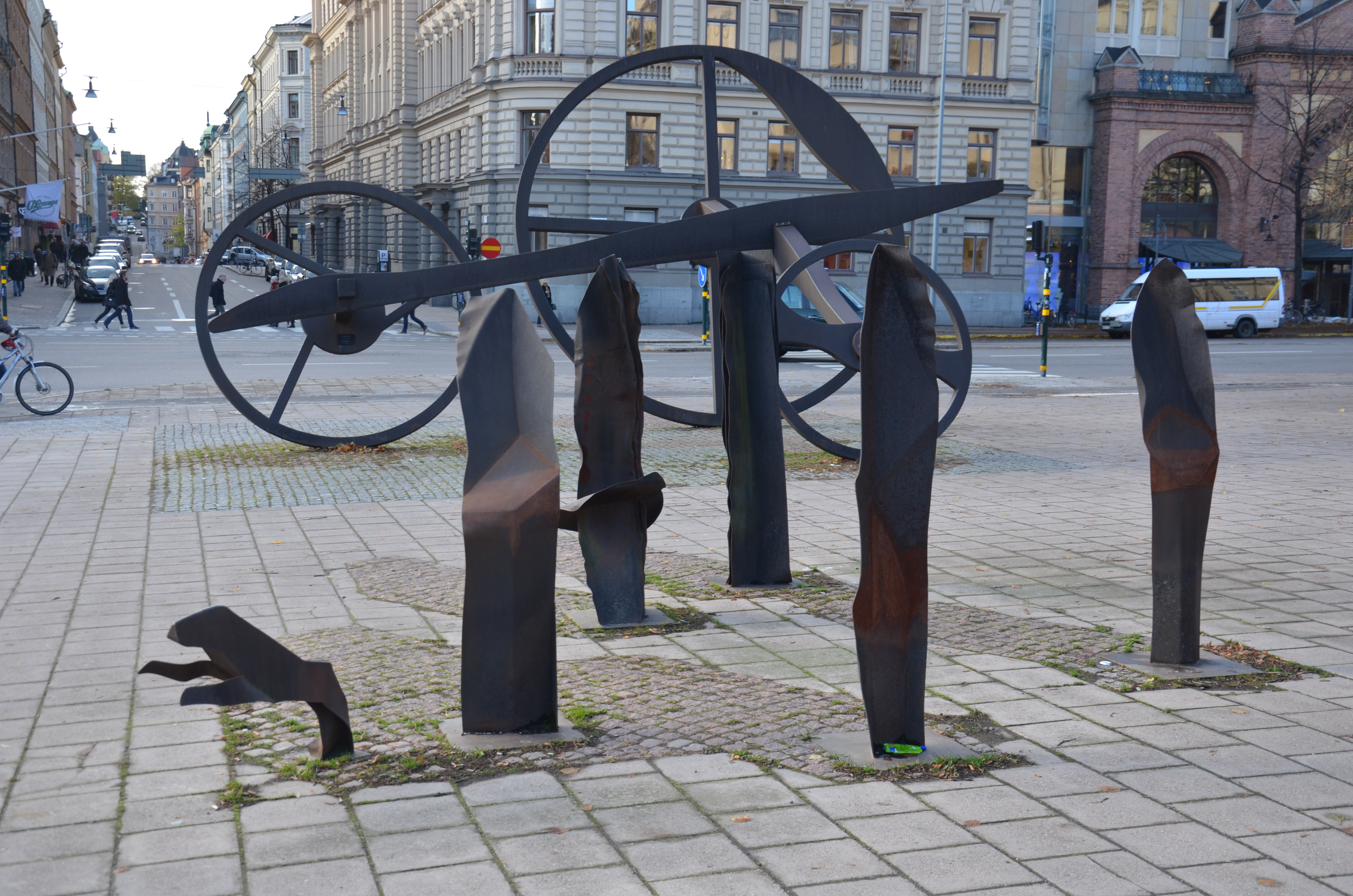 Fordon av Karl Göte Bejemark, 1973, cortenstål, Eriksbergsplan i Stockholm